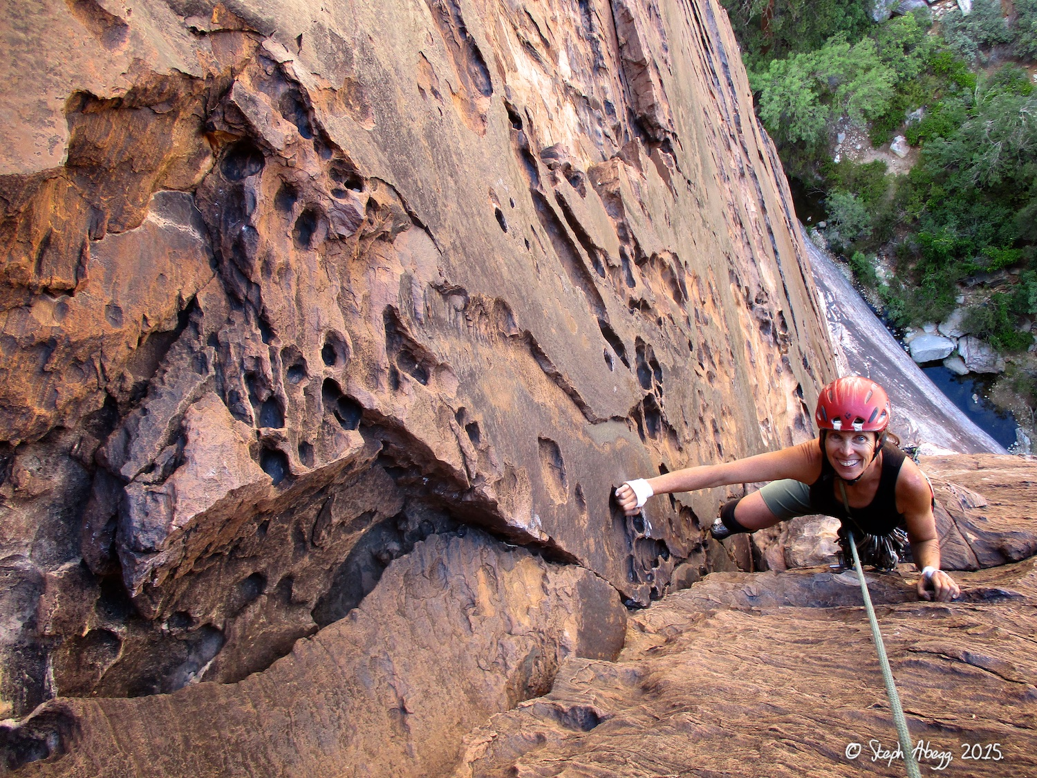 Joanne climbing up Pitch 3 of Dark Shadows, as seen from the belay at the top of the pitch. This is an amazing pitch on dark slick varnished rock cut by cracks and huecos. It was pretty sustained. 5.8.